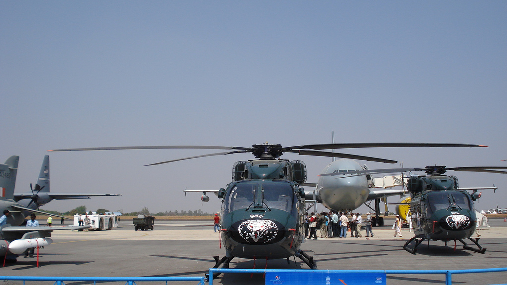 Black cobras. HAL Dhruv helicopters of the Ecuadorian Air Force.